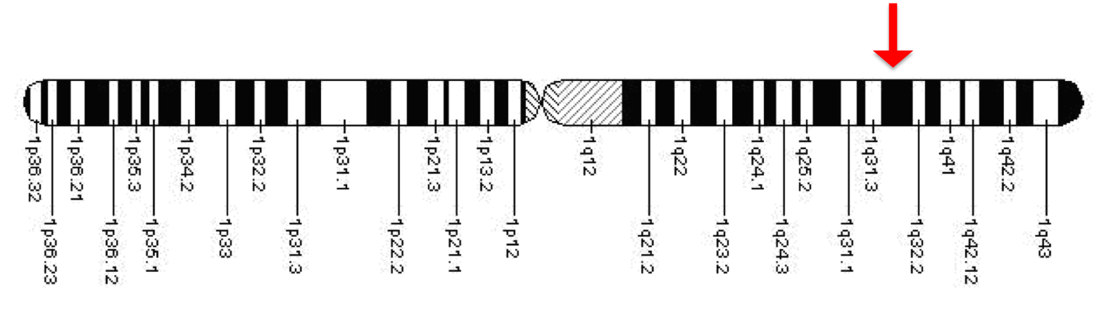 C1orf106 location on chromosome 1